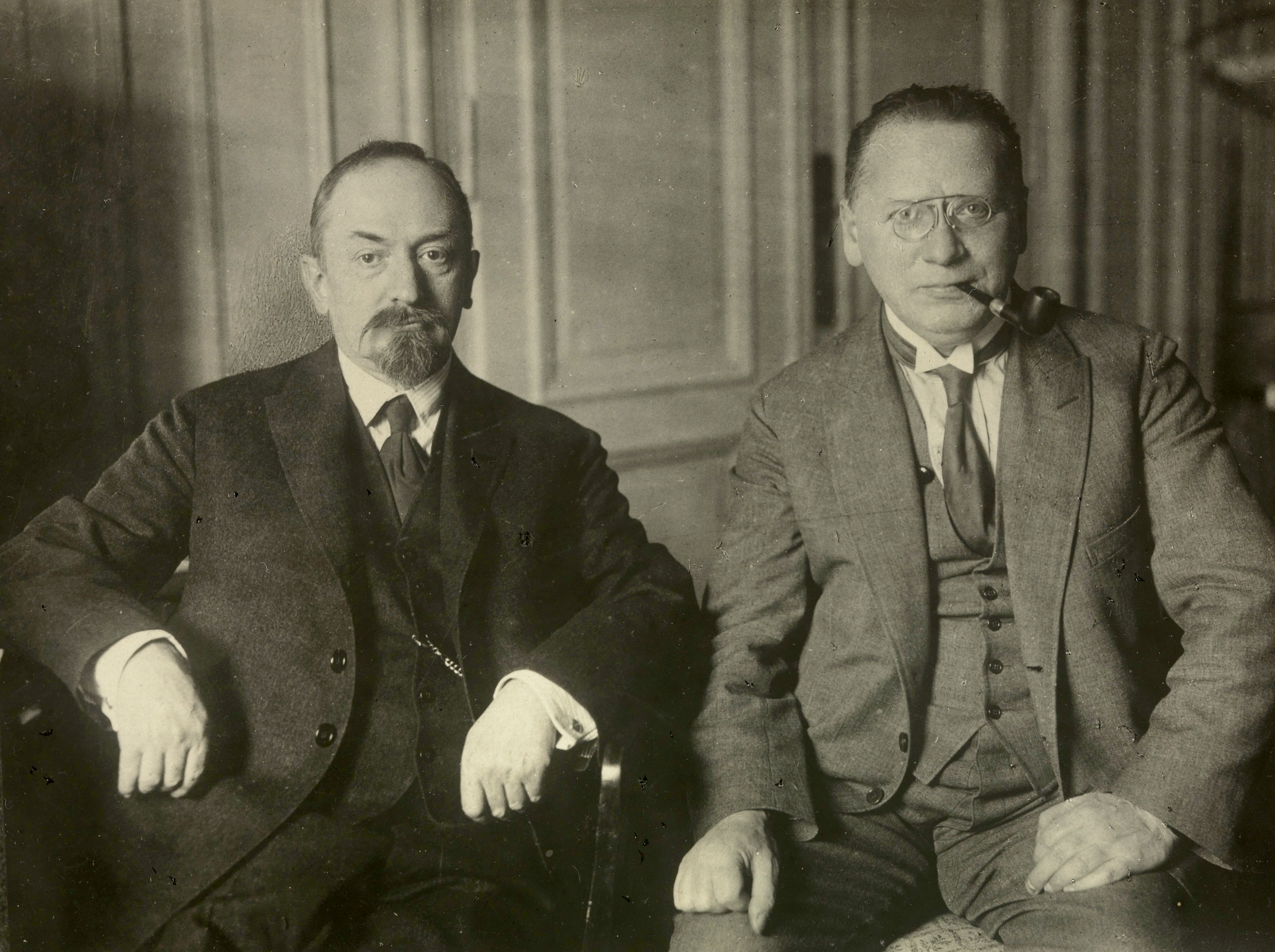 From the left, G. V. Tsjtsjerin, the Soviet Union's commissioner of foreign affairs and Litvinov, first vice commissioner.